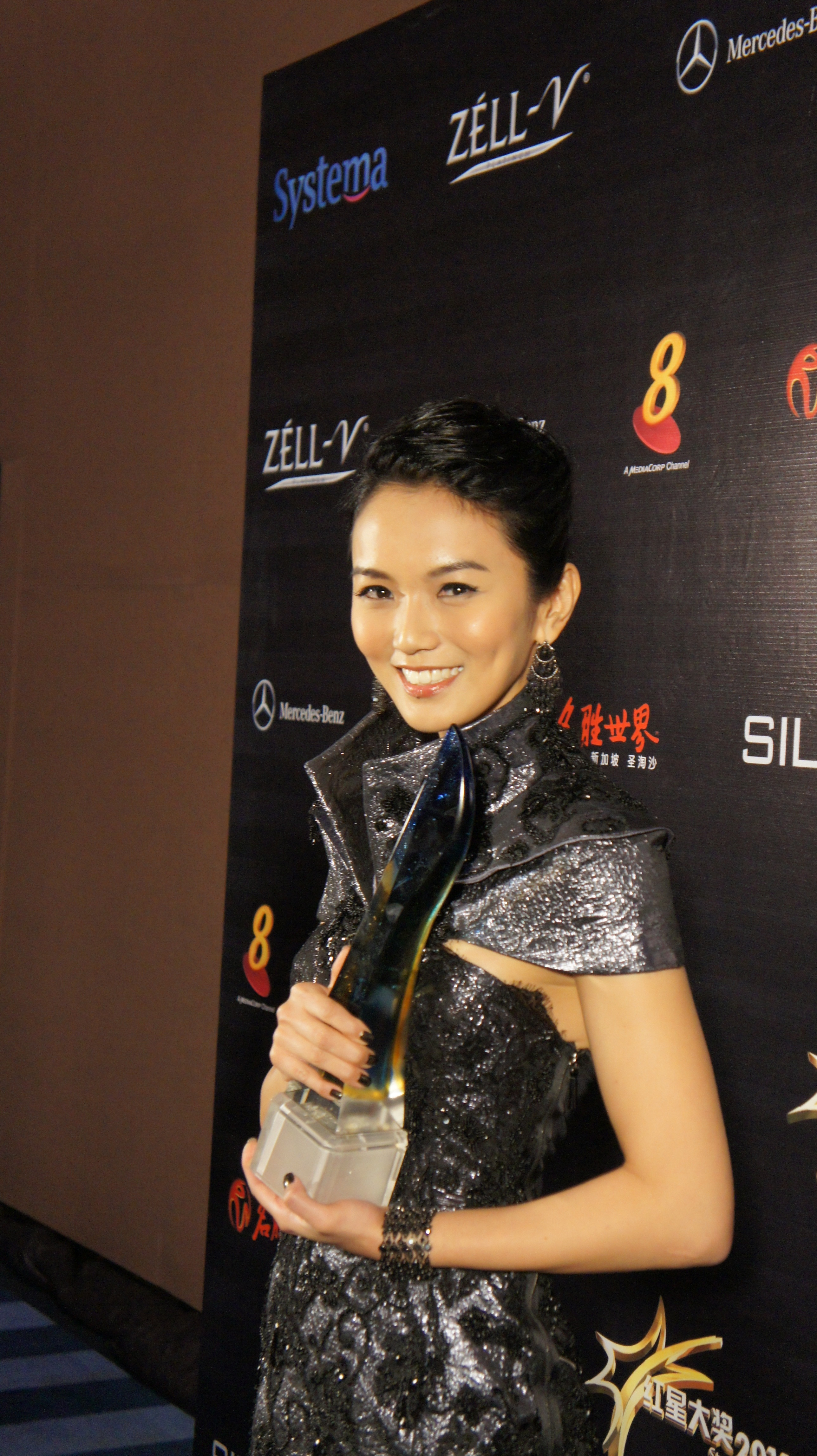 Singaporean actress Joanne Peh at the Star Awards 2011.